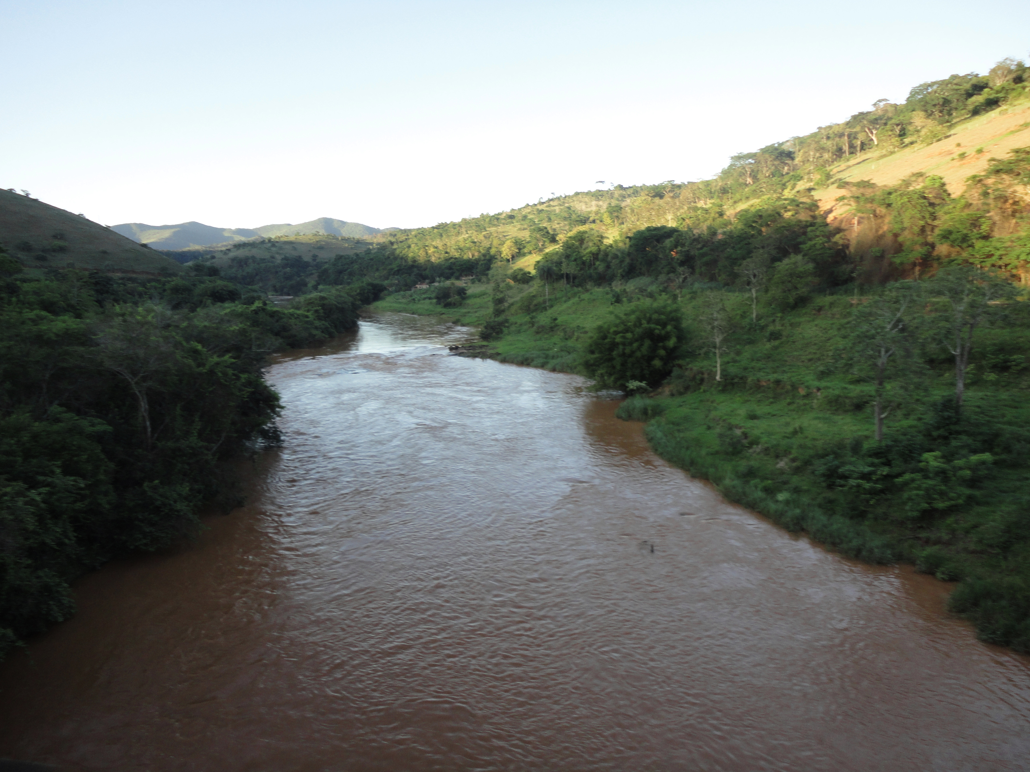 Piracicaba River in Nova Era, Minas Gerais, Brazil.